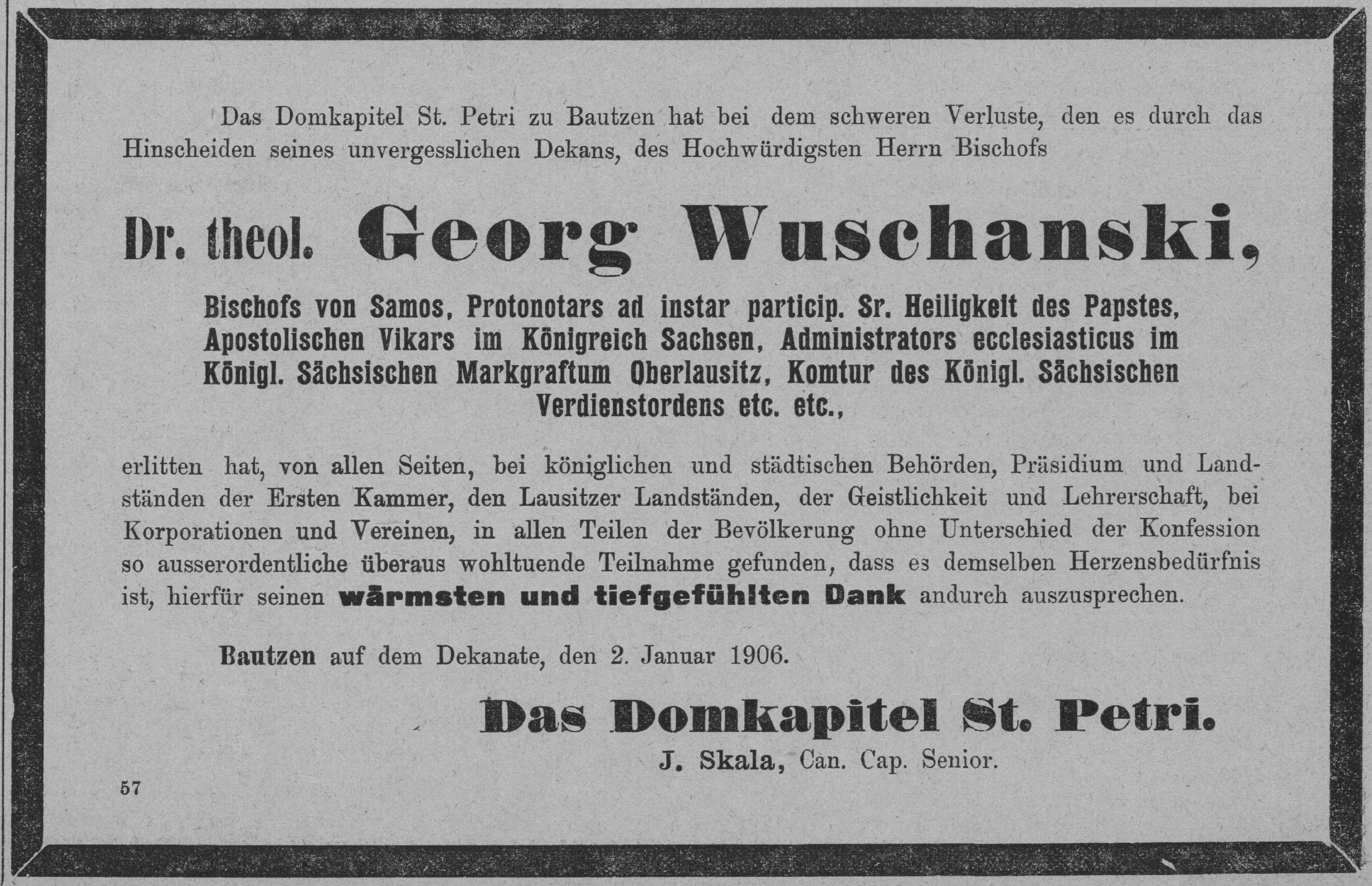 Scan from the Dresdner Journal, 1906